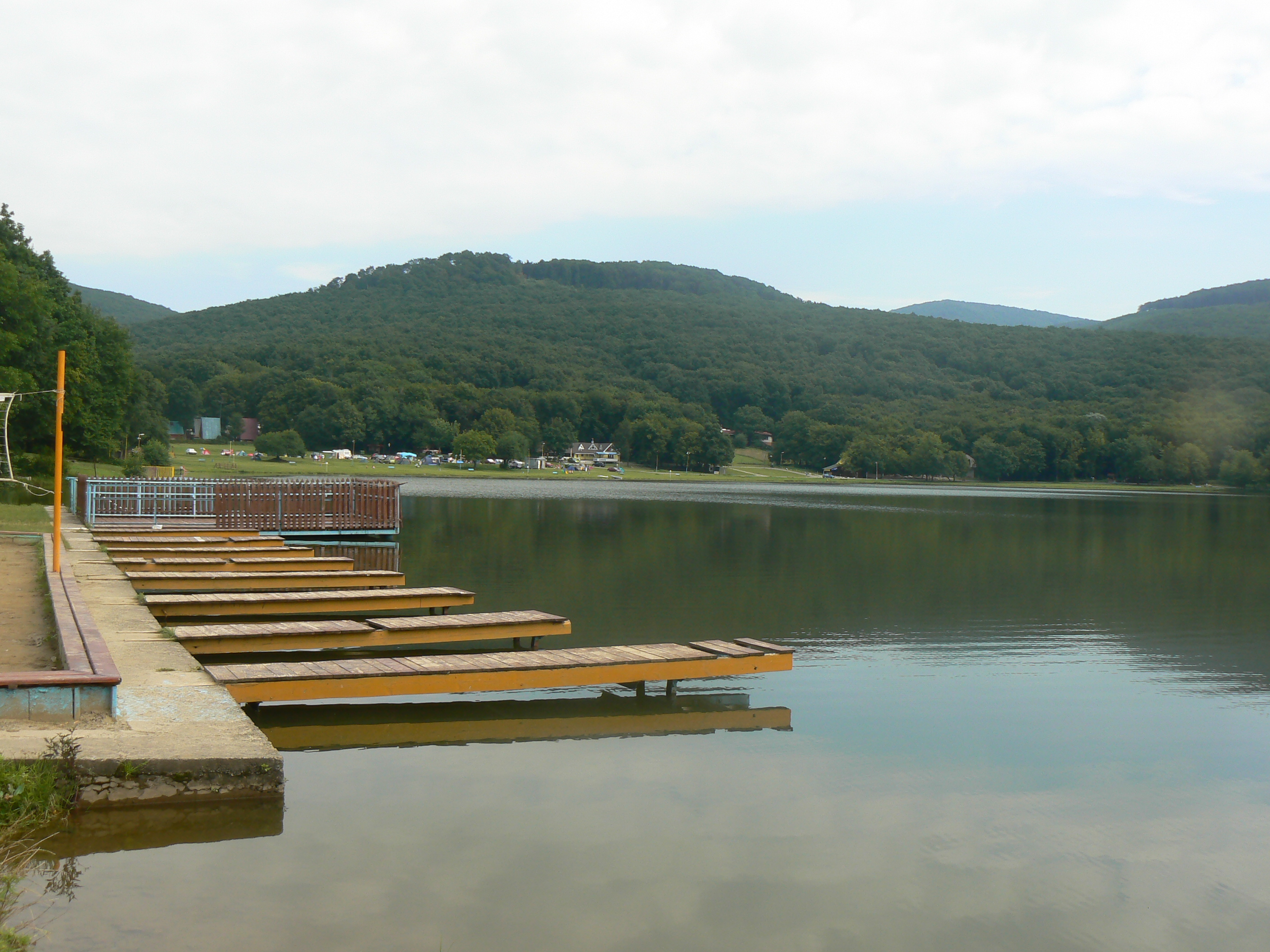 Vinianske Lake, Vinné, Slovakia.